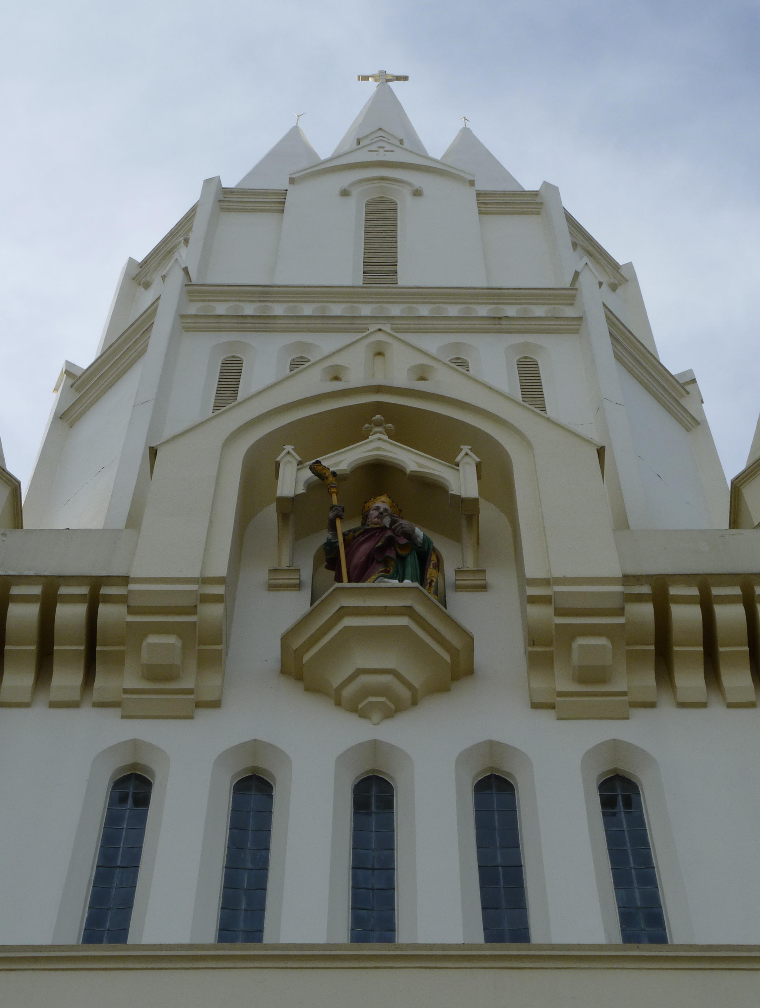 Cathedral of the Holy Spirit, Palmerston North, New Zealand